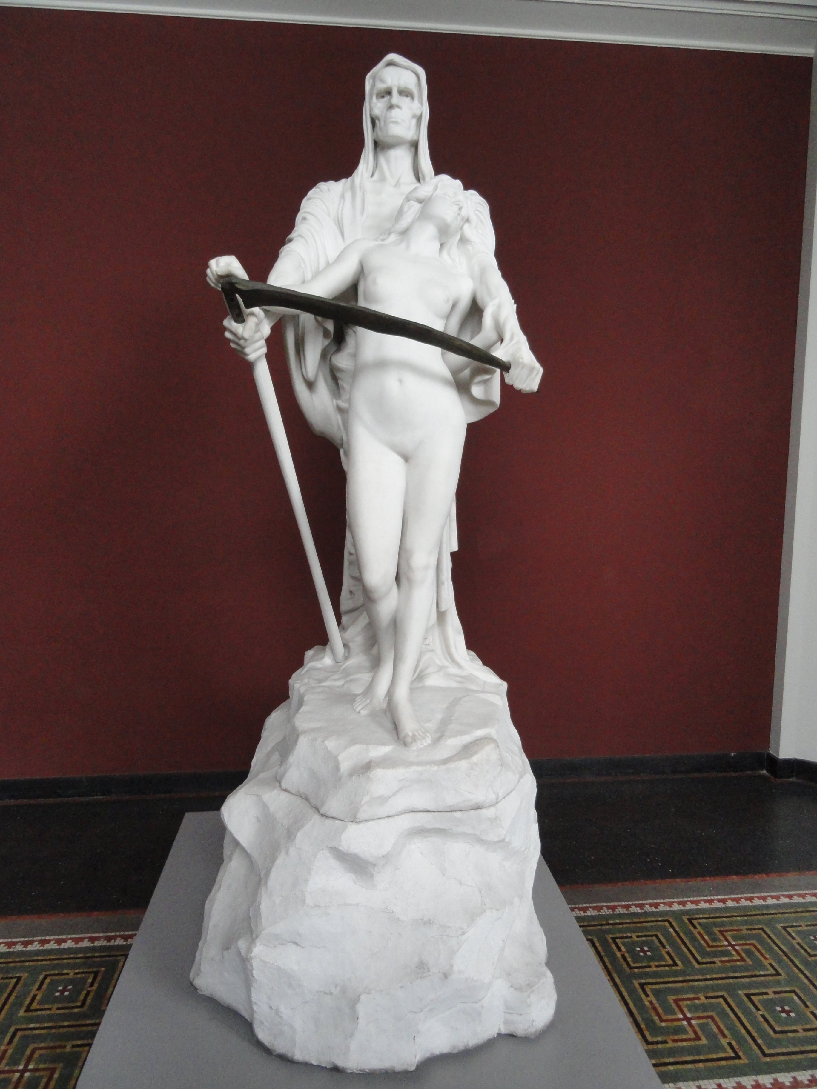 Exhibit in the Ny Carlsberg Glyptotek, Dantes Plads 7, Copenhagen, Denmark. The museum permitted photography without restriction. This artwork is now in the public domain because the artist died more than 70 years ago.